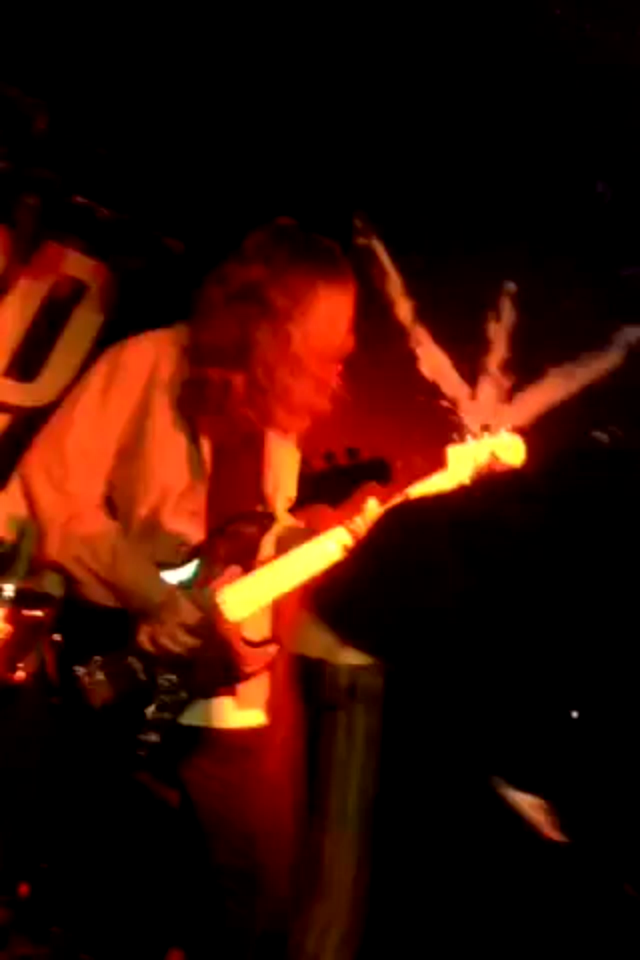 Loathe band member Shayne Smith performing at The Key Club (Leeds, UK) in 2017. Photo taken during Loath's set as support band to Blood Youth.